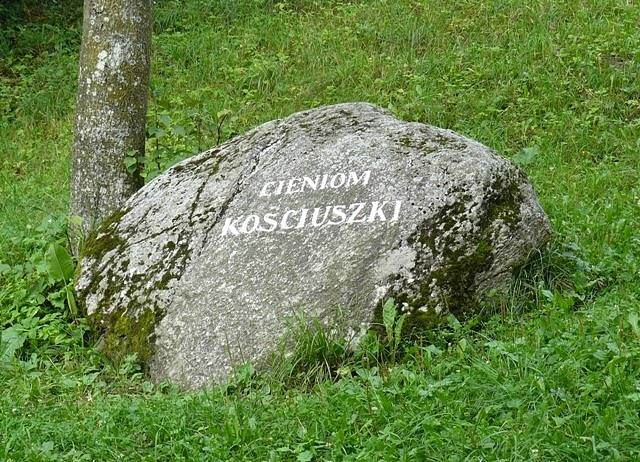 Estate of Ogiński (1820s), Zalessie village, Smarhon’ district, Grodna region1